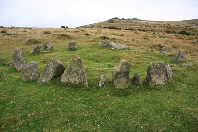 Nine Stones Actually sixteen stones form the circle; Belstone Common behind.